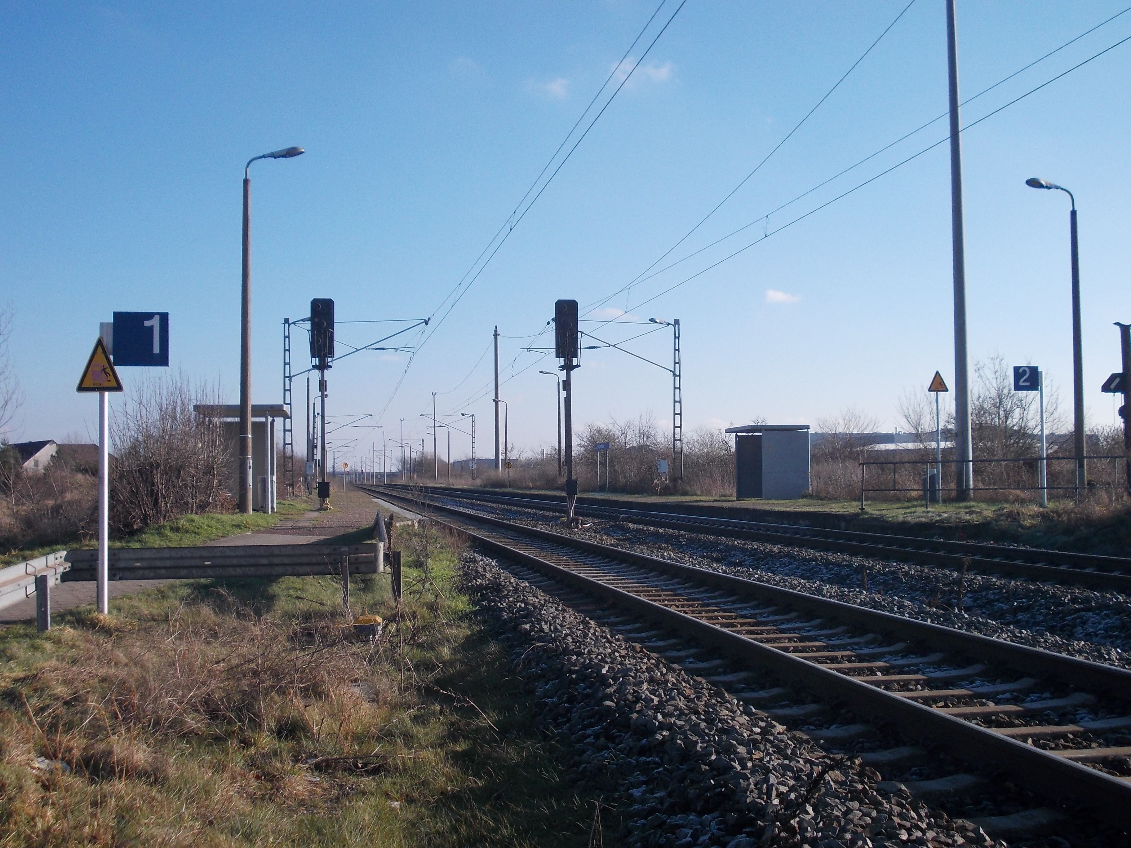 Merseburg-Elisabethhöhe train station (dostroct: Saalekreis, Saxony-Anhalt)